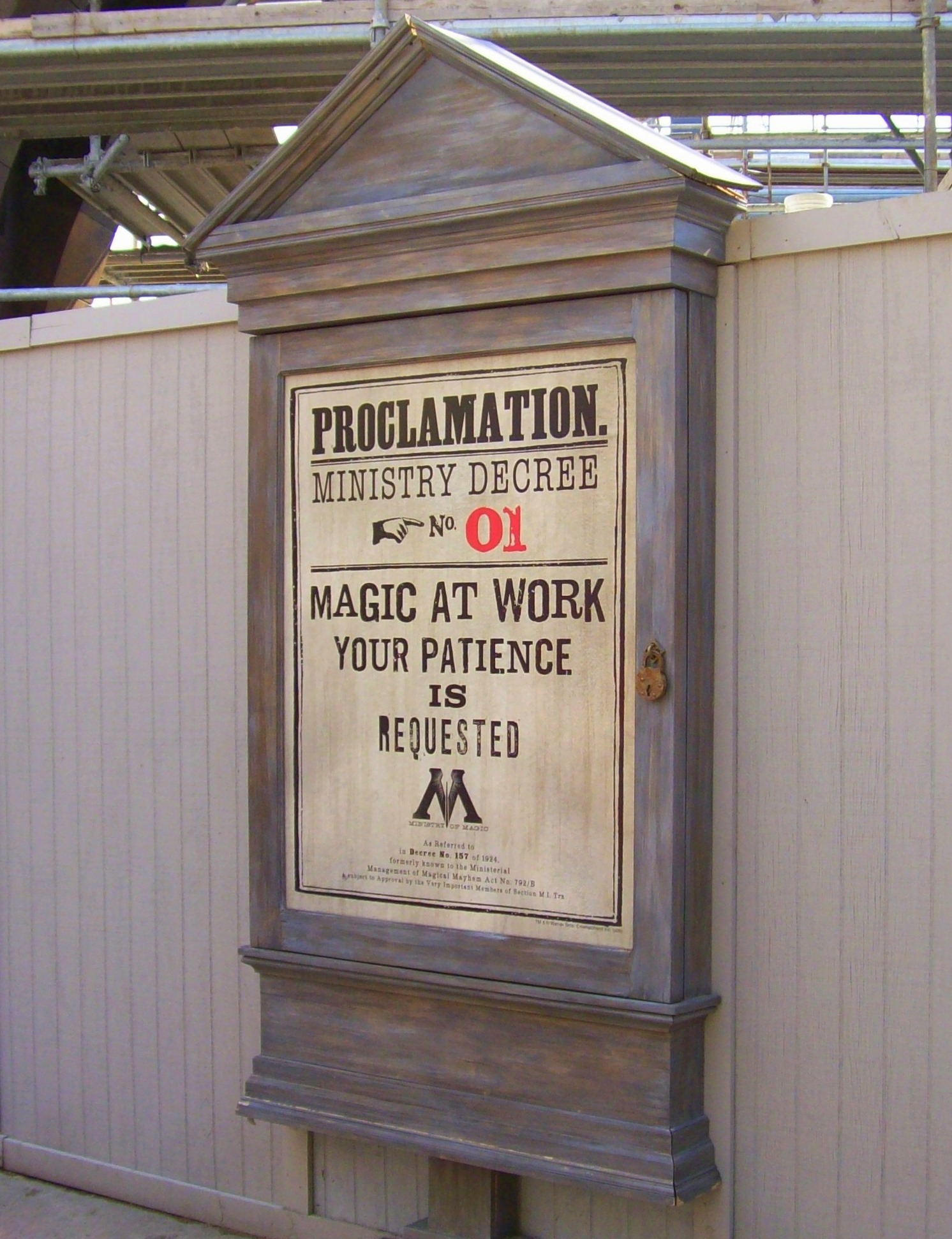 'Under Construction' signs, as displayed during the construction of The Wizarding World of Harry Potter at Universal Orlando.